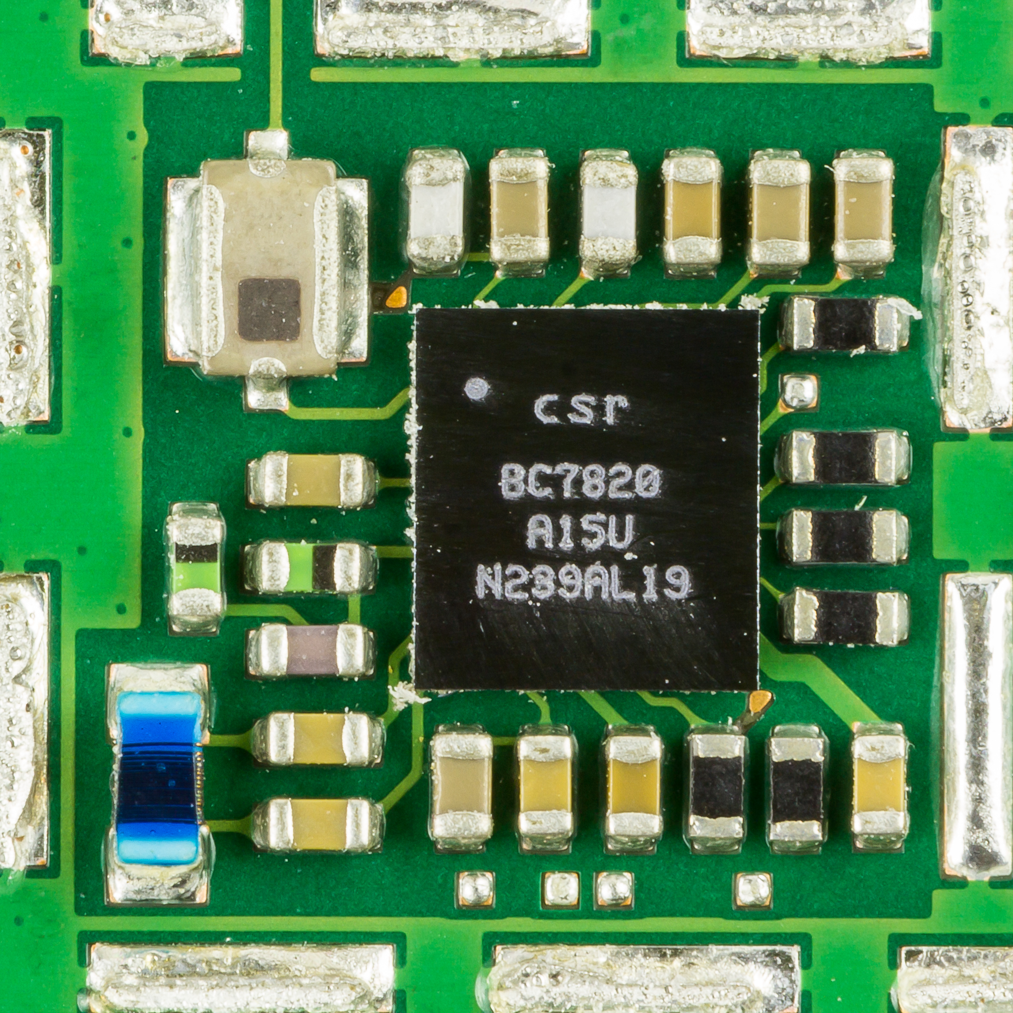 Nokia X2-02 - csr BC7820